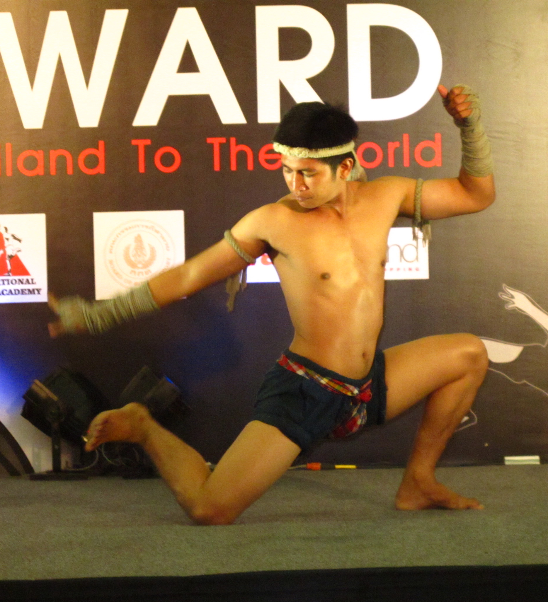 Wai khru ram muay 4